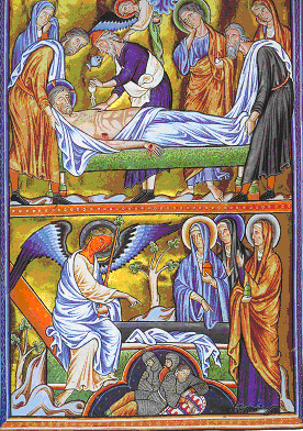 Anointing of dead body of Christ with myrrh before Entombment of Christ. Women at the grave. Miniature from Ingeborg Psalter